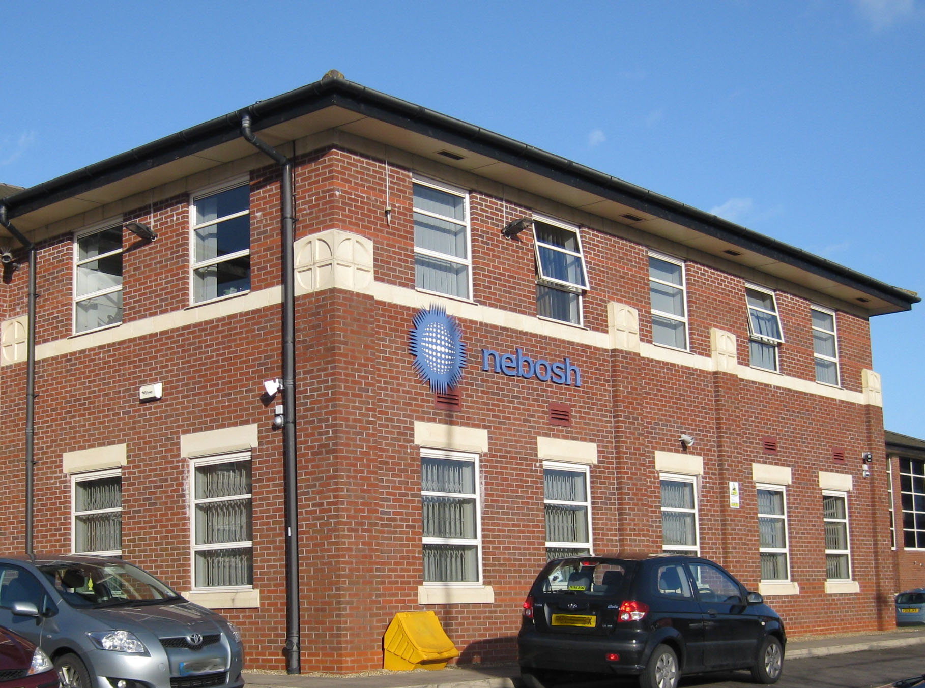 Headquarters of NEBOSH, Dominus Way, Meridian Business Park, Leicester LE19 1QW